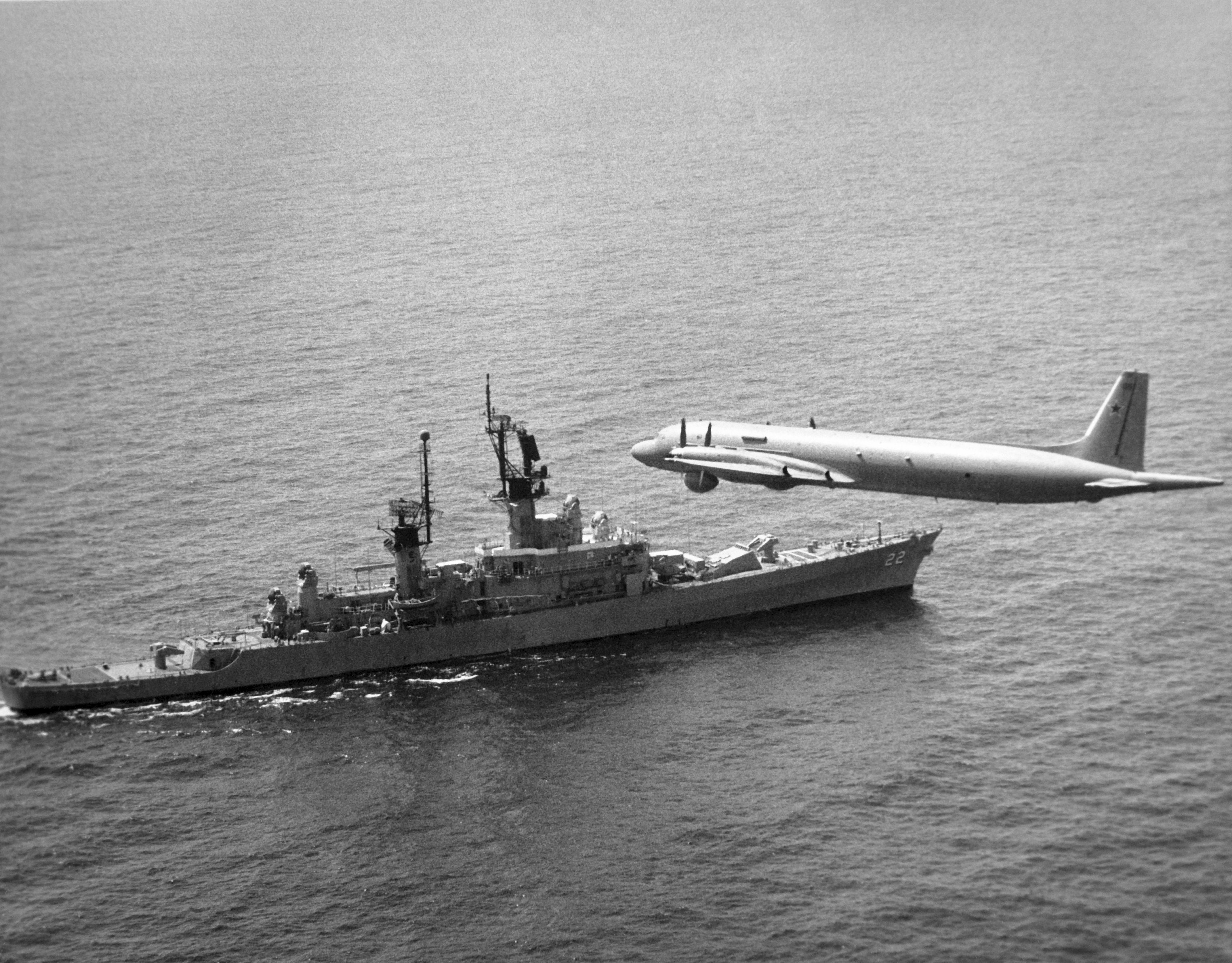 A Soviet Ilyushin Il-38 "Dolphin" (NATO reporting name: May) maritime patrol aircraft flies over the U.S. Navy guided missile cruiser USS England (CG-22) on 22 May 1979. England was assigned to the battle group of the aircraft carrier USS Midway (CV-41), which operated in the Indian Ocean in May 1979.